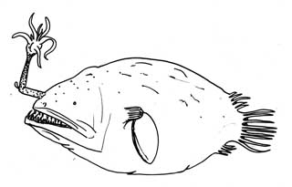 Drawing of the Smooth-headed Dreamer, Chaenophryne draco